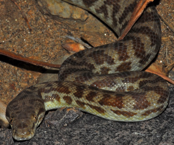 Stimson's python (Antaresia stimsoni). taken at Simpson's Gap, Northern Territory, Australia.